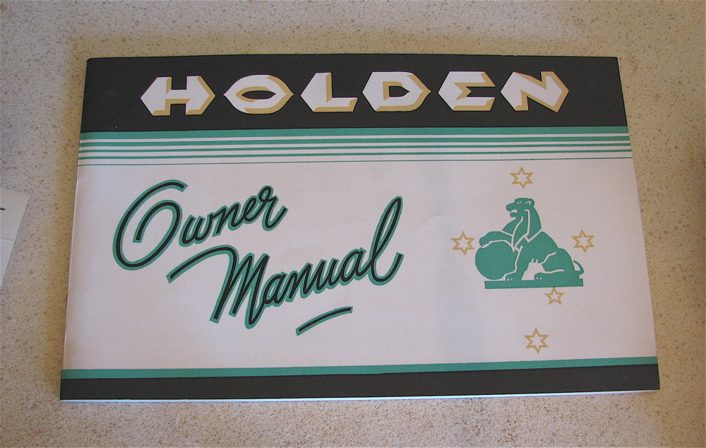 1960–1961 Holden FB "Owner Manual", photographed in Australia.